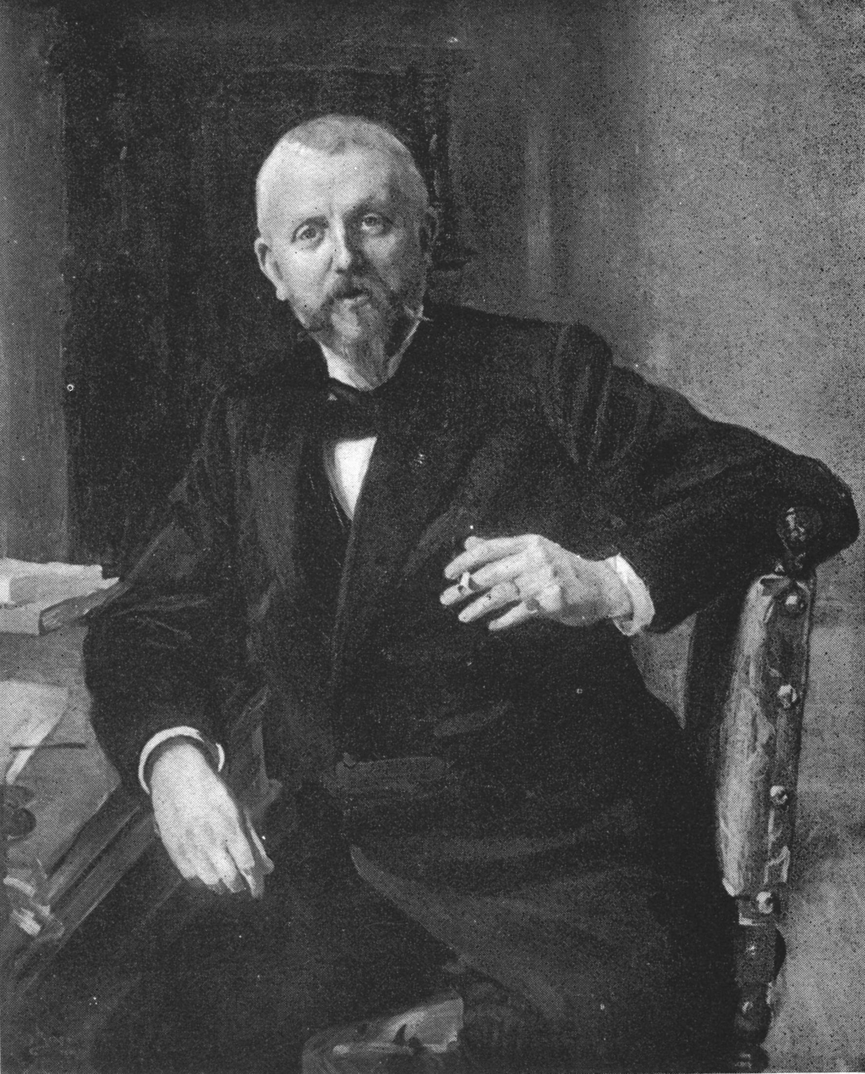 Fredrik Vult von Steijern (1851-1919), Swedish journalist, editor, critic and bibliophile.